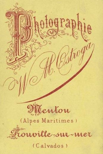 Adresse professionnelle